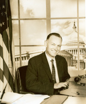 Donald H. Magnuson, US Representative from Washington